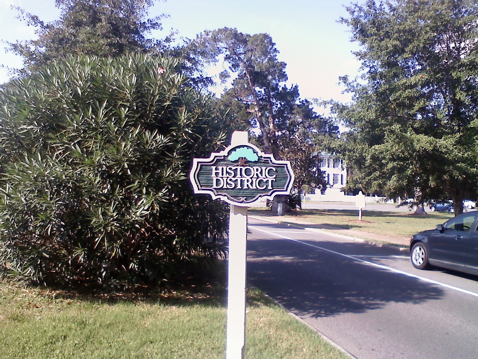 Sign for the St. Marys Historic District — located on Osborne Street, in St. Marys, Georgia. Orange Hall is located in the background.